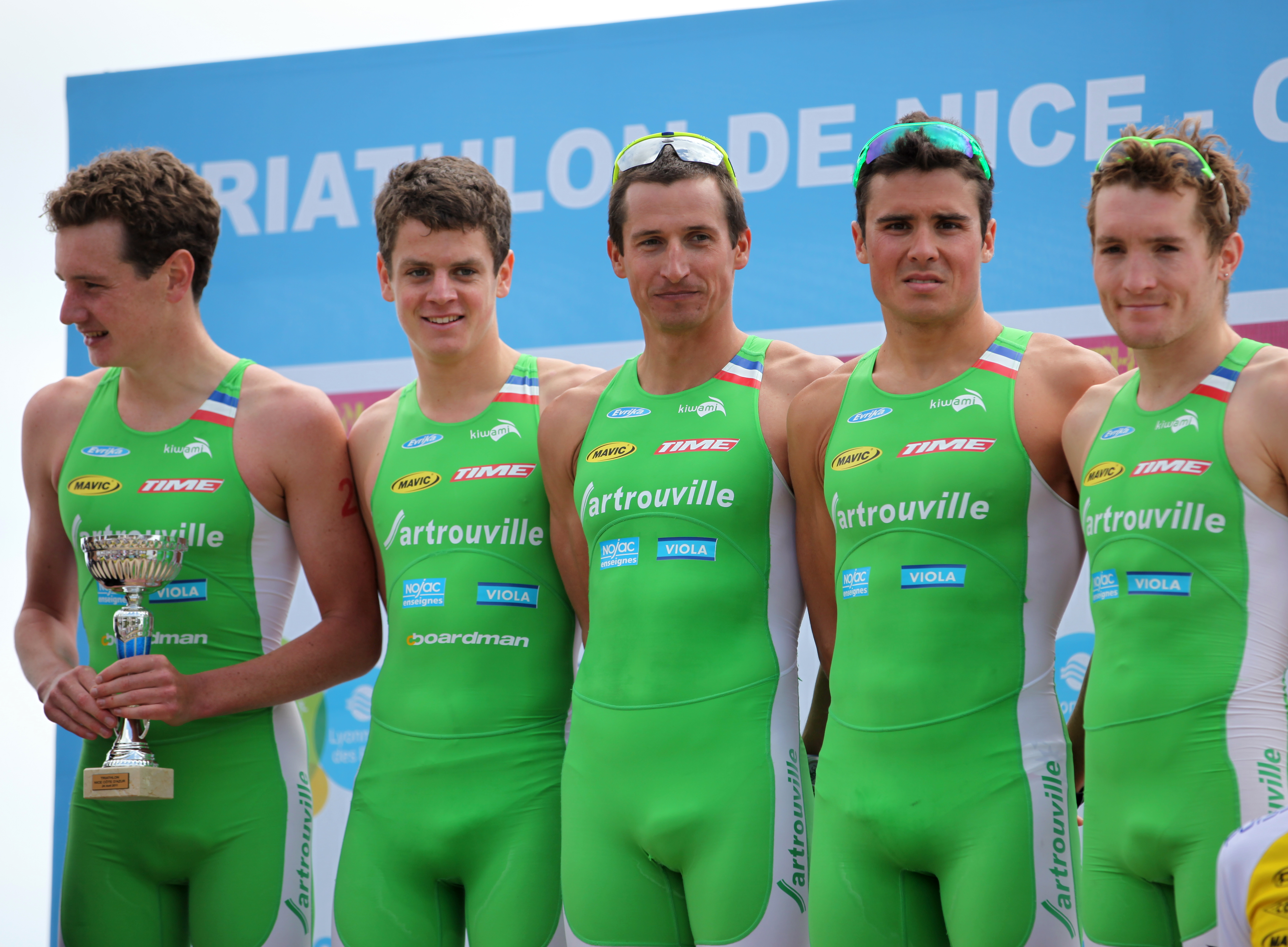 The winning club EC SARTROUVILLE at the first triathlon of the French Grand Prix de Triathlon circuit (Club Championship Series Lyonnaise des Eaux) in Nice, 2011, from left: Alistair Brownlee, Jonathan Brownlee, Filip Ospaly, Javier Gomez Noya, Etienne Diemunsch.